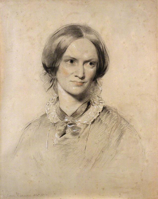 Depicted person: Charlotte Brontë